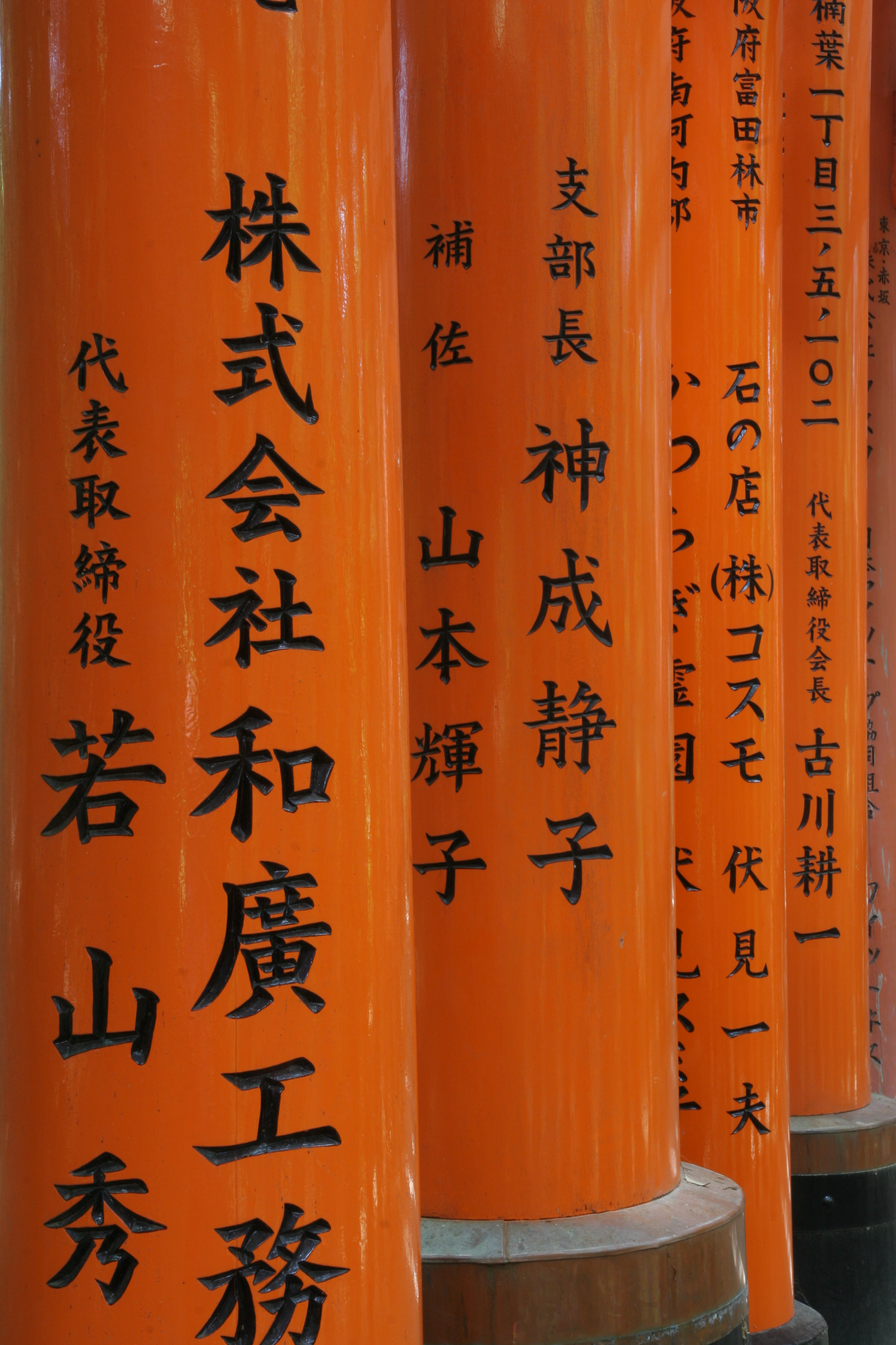 Inscriptions on torii at Fushimi Inari shrine, Kyoto